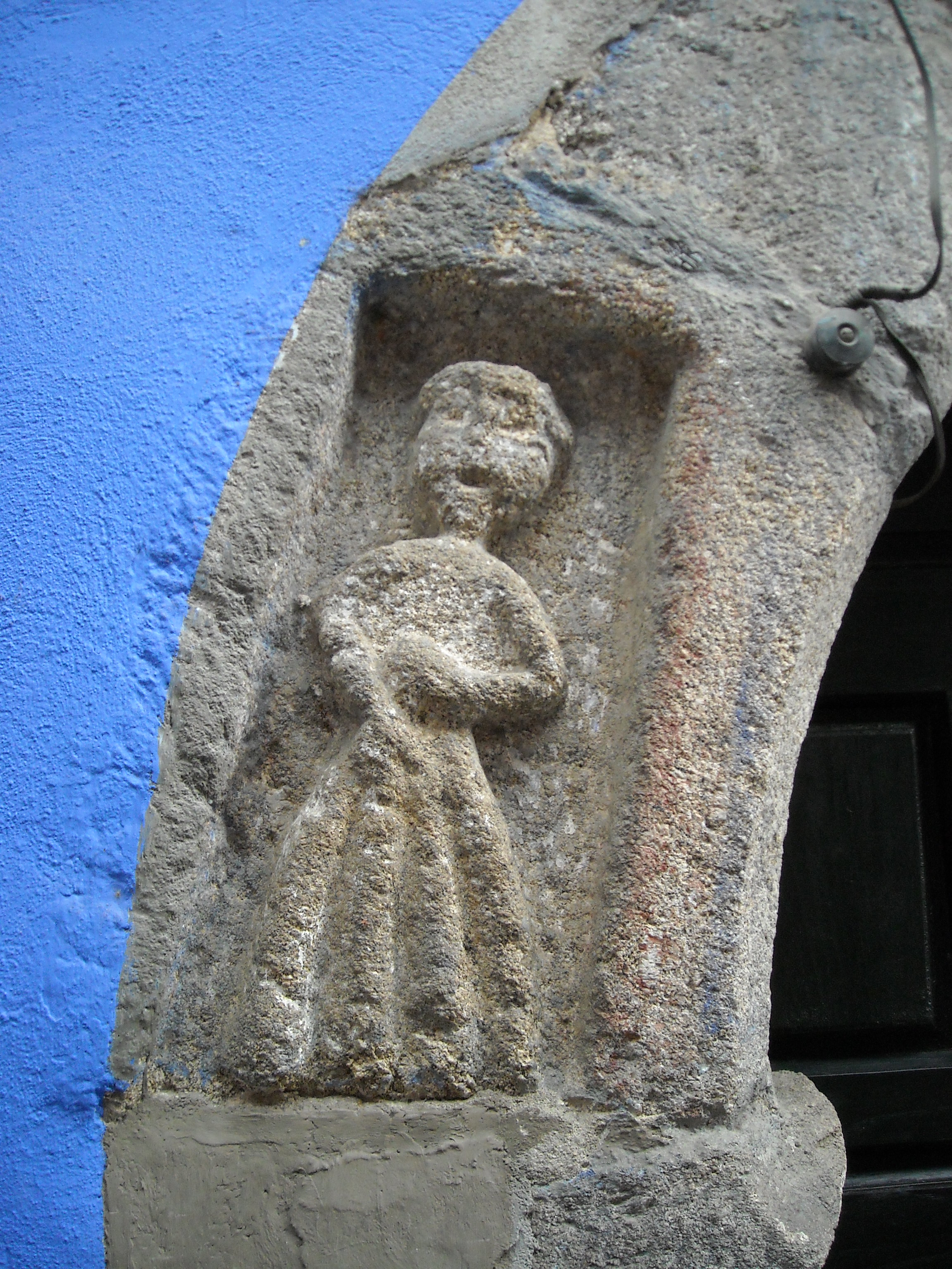 Detail of the "casa de la muñeca" (doll's house), Garganta la Olla, Cáceres, Spain